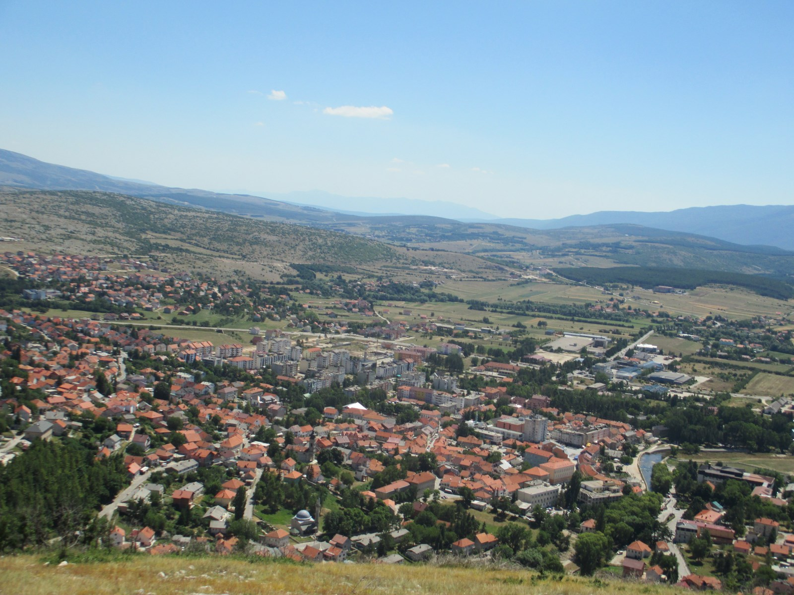 2 friends stay for the night